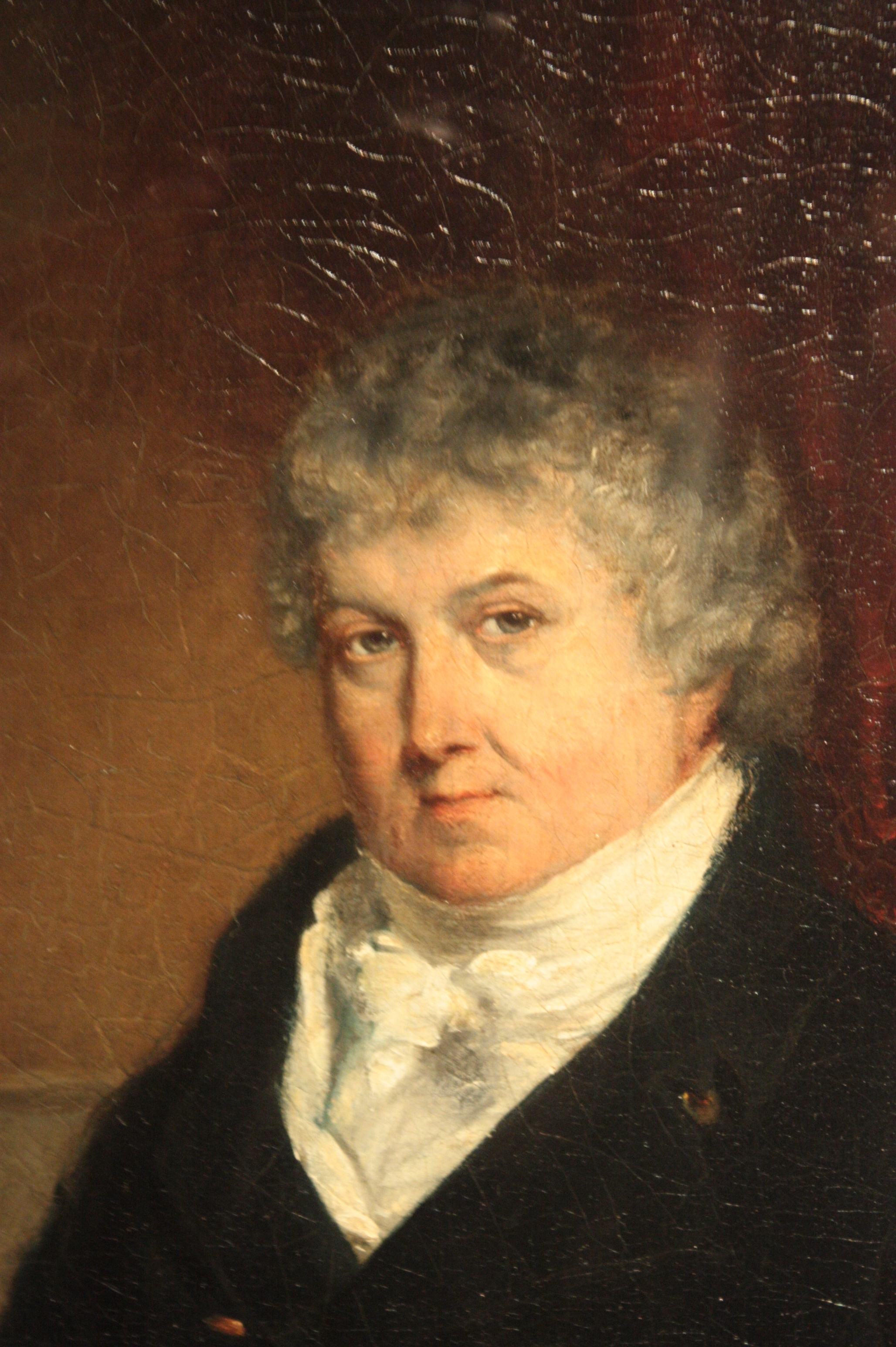 George Robinson of the London Dock Company by John Patridge (detail)